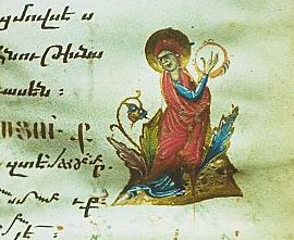 Neumes (Crossing Red Sea), Lectionary, M979, 1286